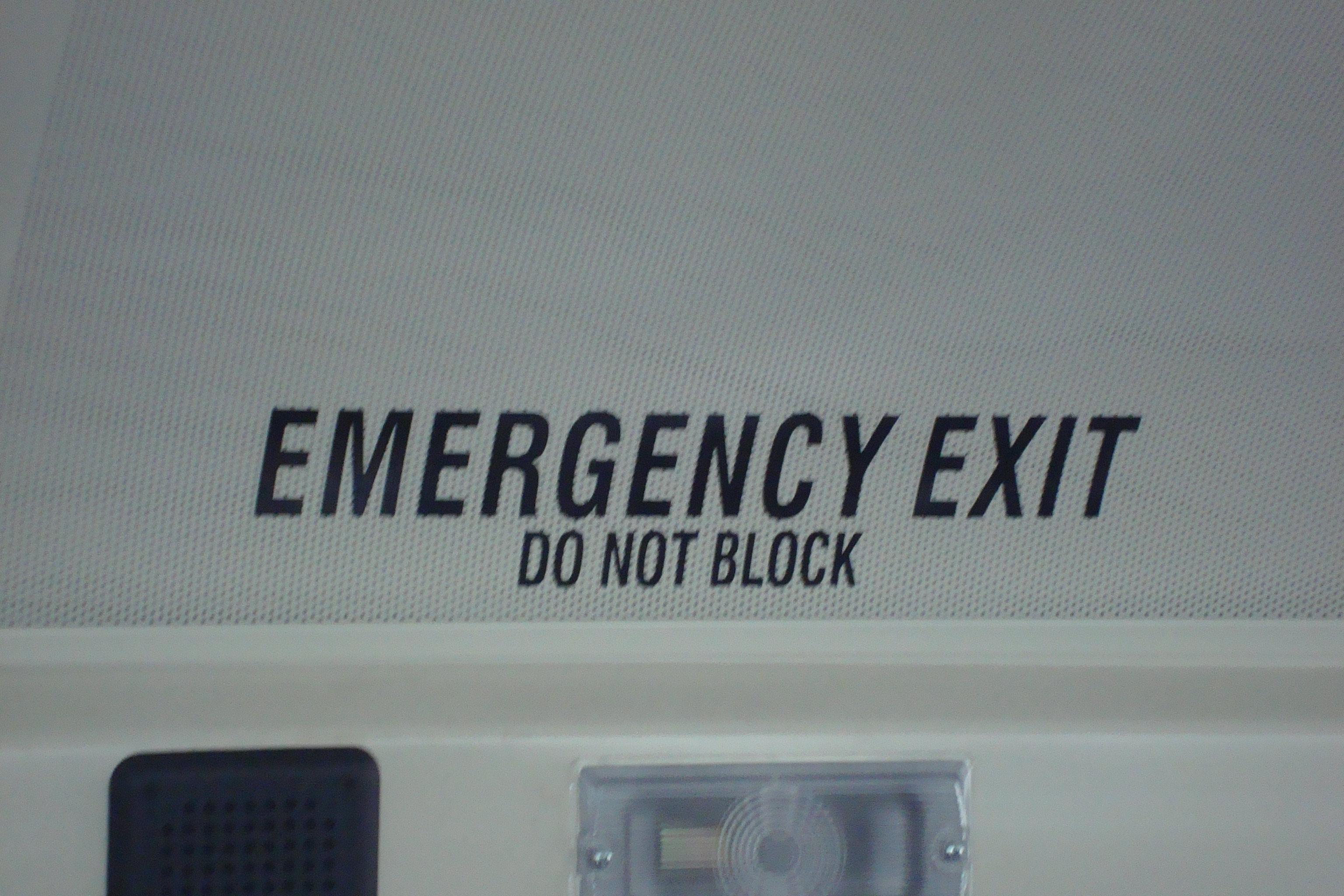 An exit sign from a Minnesota Hopkins School District bus.